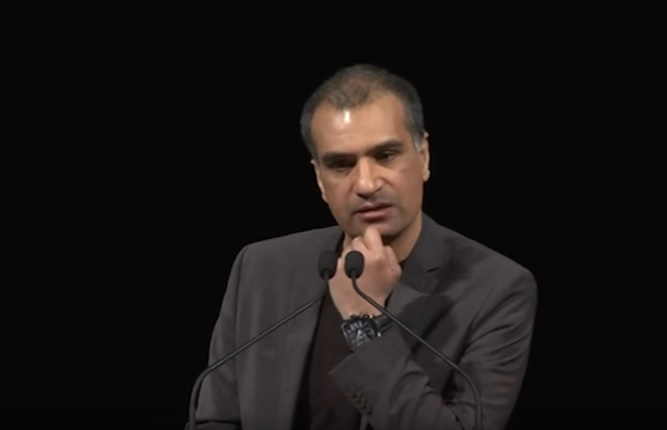 Nadeem Aslam reading from his new novel set in Pakistan.